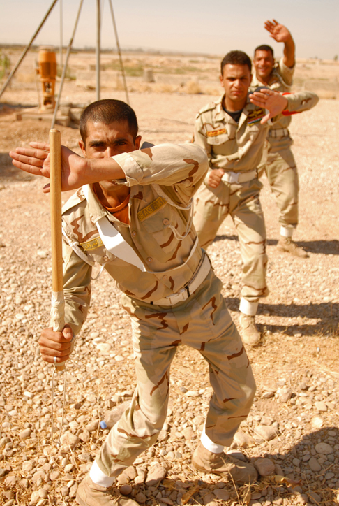 A military policeman with the 12th Iraqi Army Division practices using a baton during riot control training at K-1 Military Base, Kirkuk, Iraq, Sept. 10. The training was conducted by Soldiers from the 2nd Special Troops Battalion, 2nd Brigade Combat Team, 1st Cavalry Division, and was designed to teach the IA how to effectively control a hostile crowd.